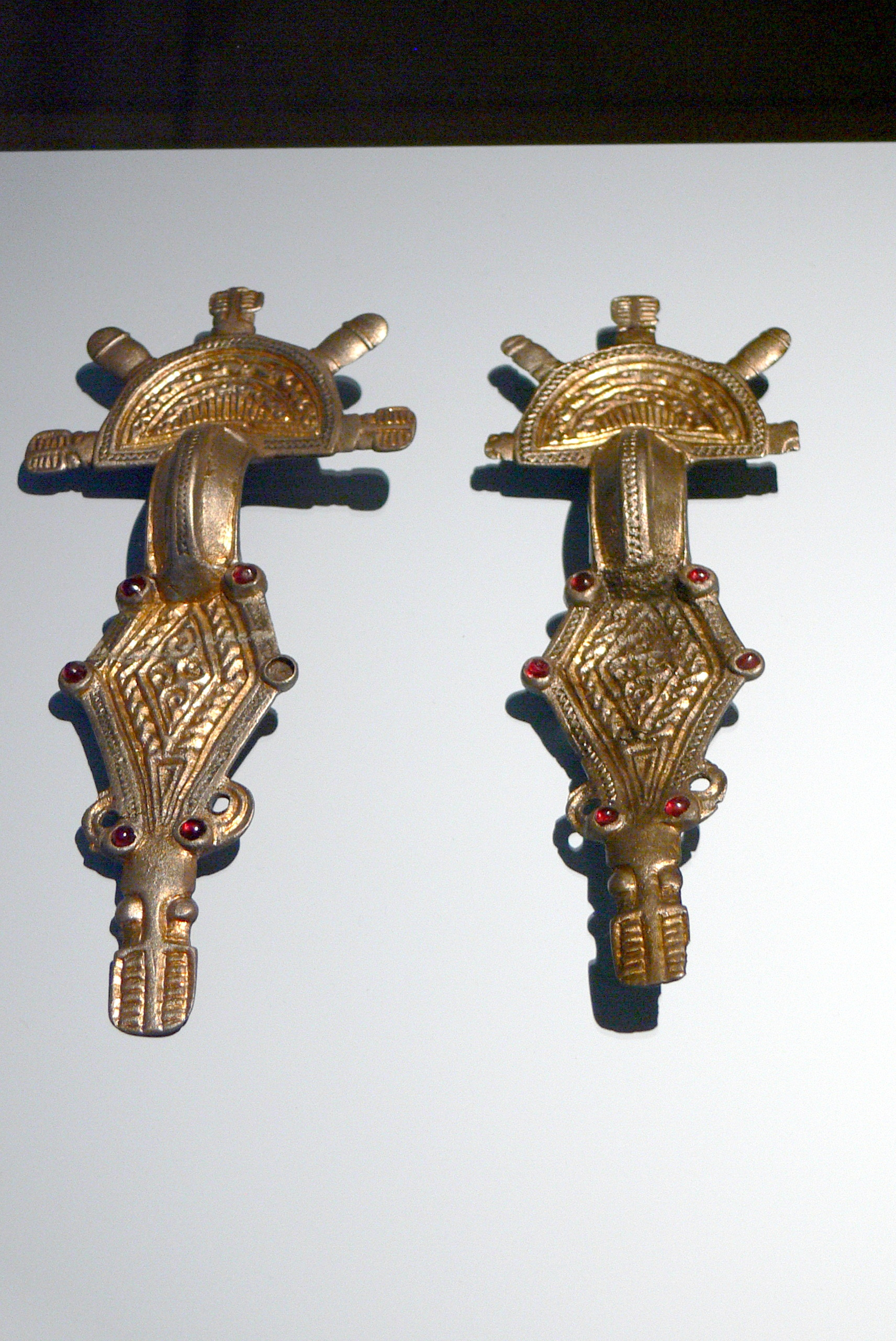 German National Museum ( Nuremberg / Germany ). Pair of gothic bow fibulae ( 500 AD ), from Emilia-Romagna, Italy.